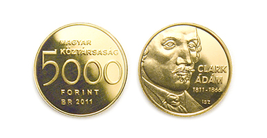 Adam Clark, coin, gold, struck, 2010. Designer: Laszlo Szlavics, Jr.